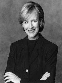 This image provided by the US Government for NASA when she helped them educate youth on Space Exploration and to encourage girls to enter the fields of math, science, engineering, and technology.